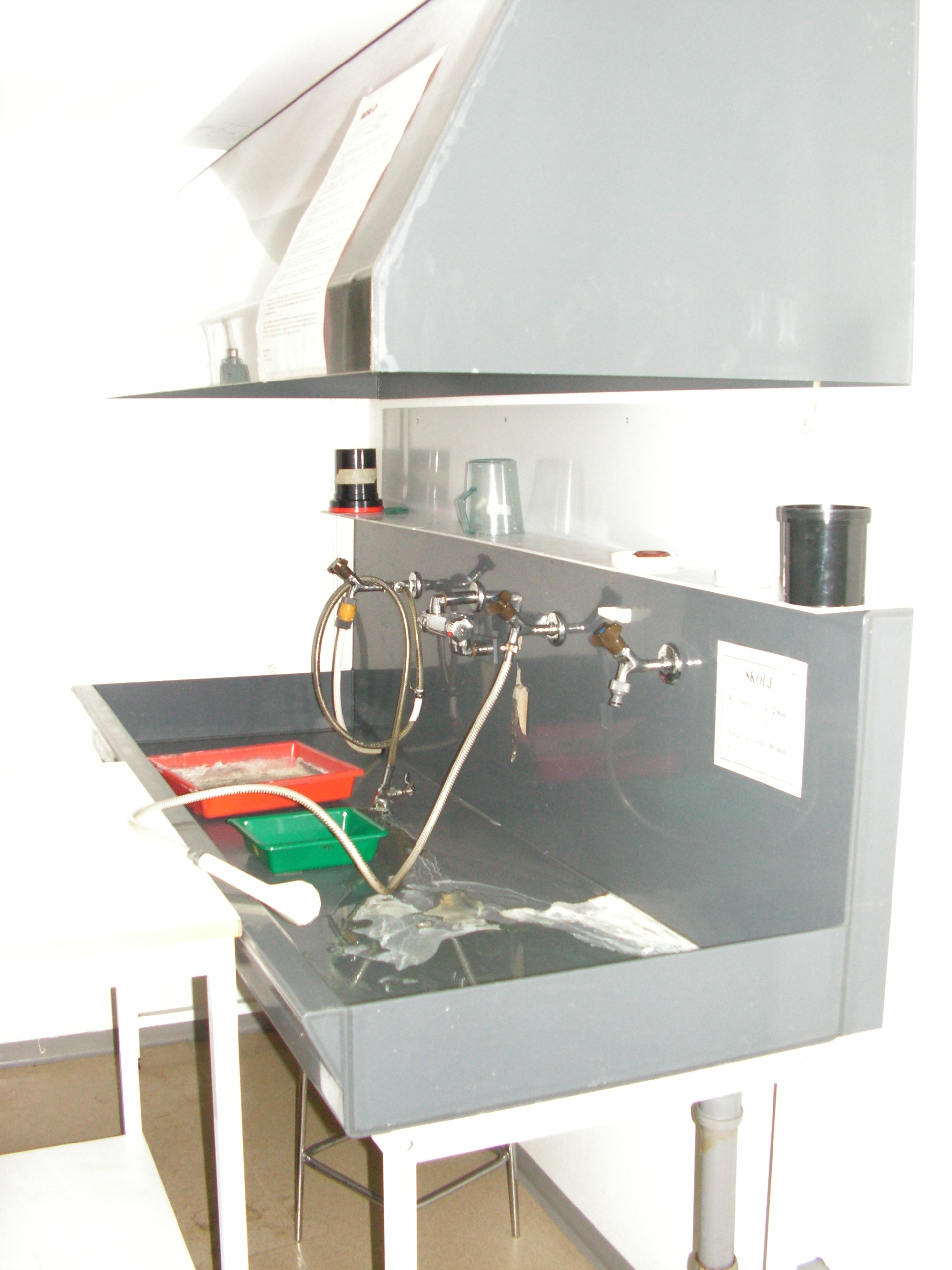 Photo:Stefan.lila